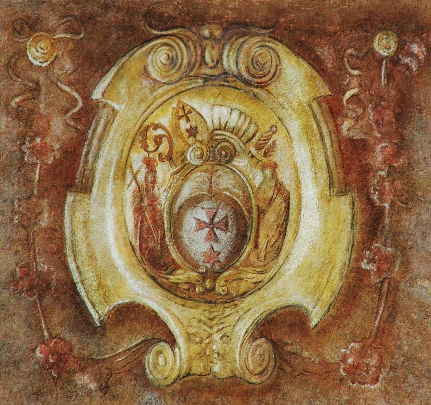 Coat of arms of the Knights of the Cross with the Red Star on the facade of Dobřichovice castle, Czechia